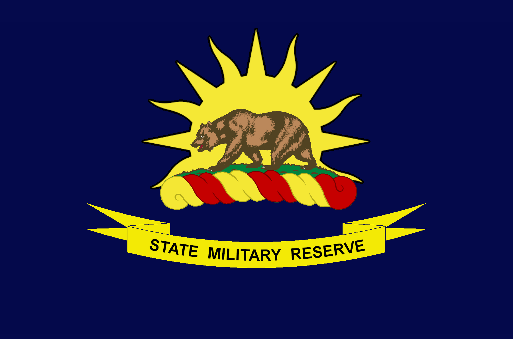 Flag CSMR